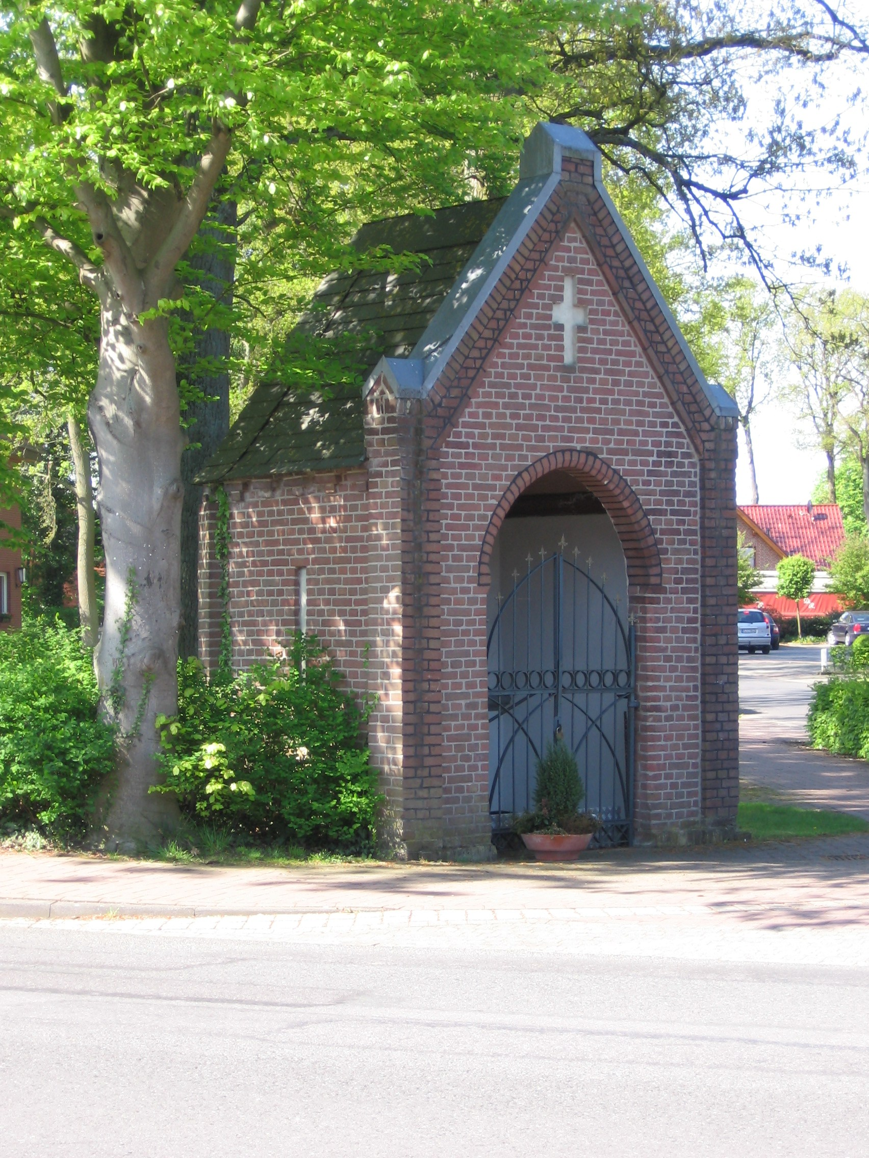 Grotto in Twist (Germany)